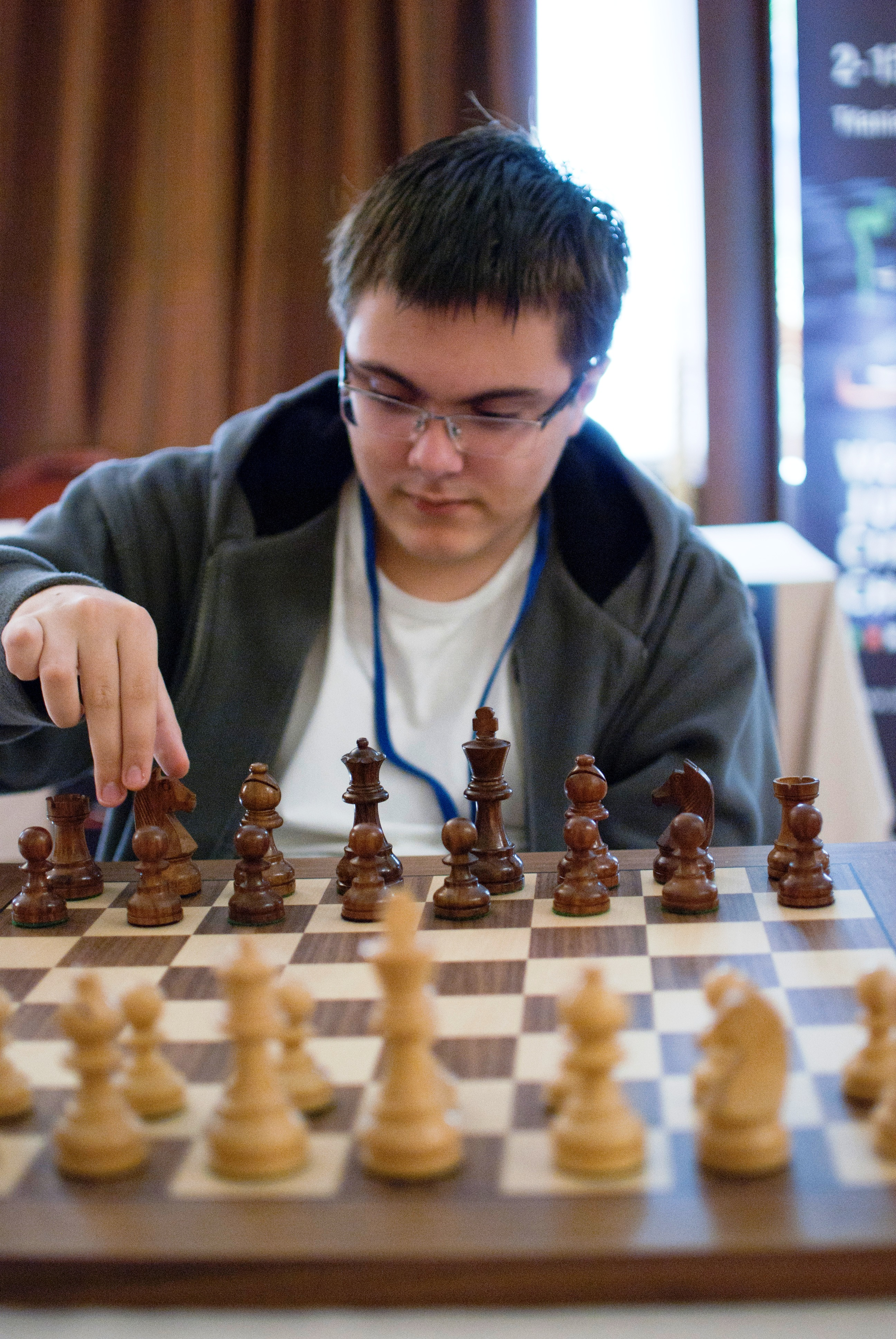 IM Antipov Mikhail, WChJ Athens 2012